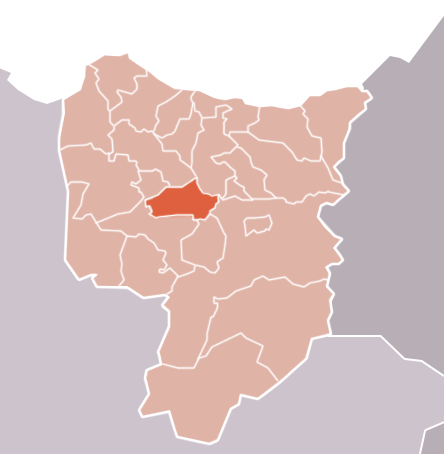 Tafersit